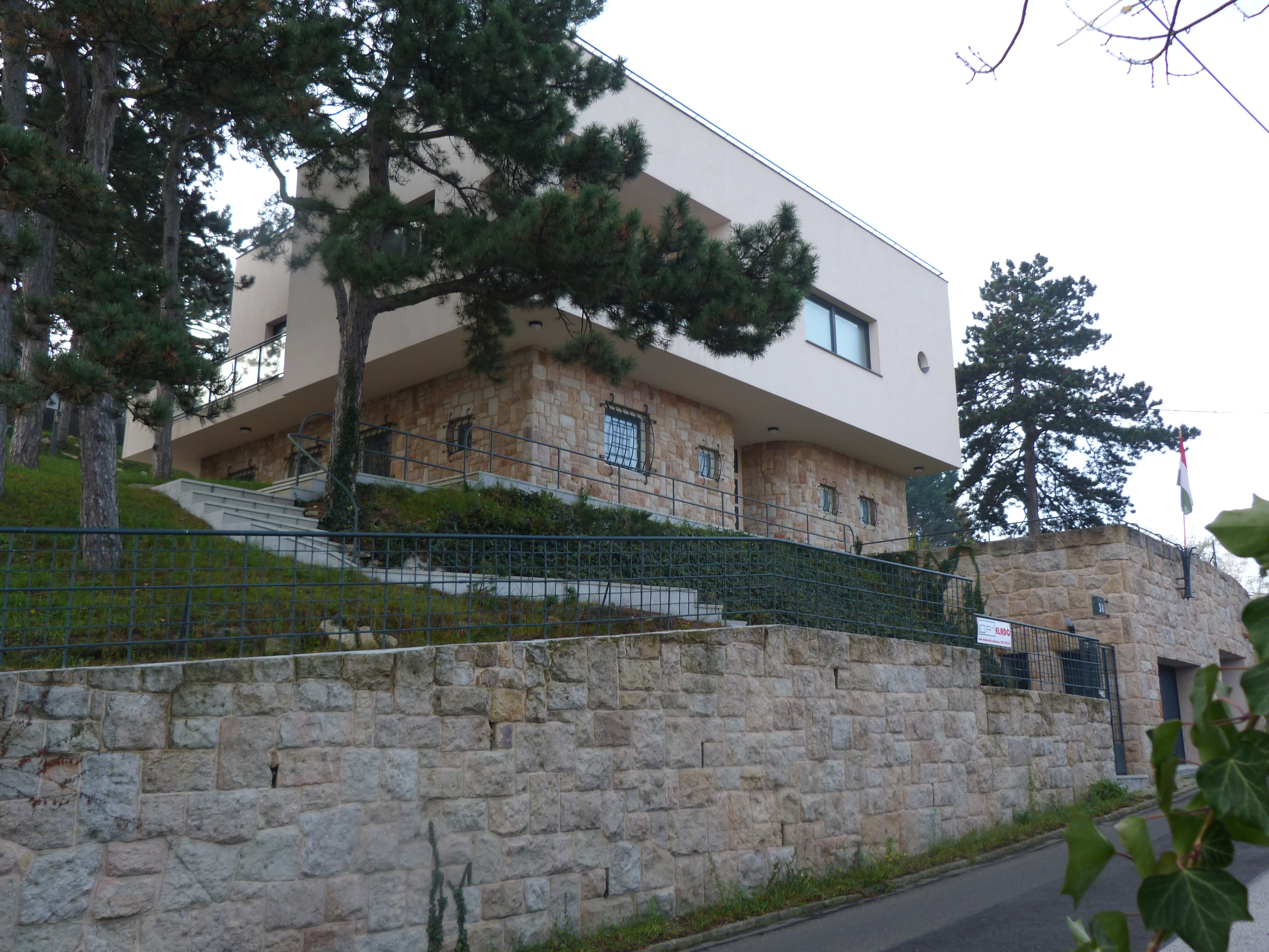 Vécsey Mansion. Meredek utca 38 szám, Budapest, Hungary. Lived here: Vécsey Jenő (1944 - ?), Noel Field (1954. november - 1970), Herta Field (1954 november – 1980), Losonczi Pál (1980 után - 1990), Szűrös Mátyás (1990 - ?), Polonyi Péter (2013 - ).